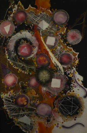 'Et in Arcadia Ego' by Christo Coetzee (1964), 195 x 130cm, oil on canvas, signed and dated on reverse 'Christo Coetzee 17/3/64 Paris' and inscribed '120 fig'; Exhibited: 'Prix Marzotto pour la peinture "Communaute Europeenne" 1964'; Provenance: Rodolphe Stadler Collection, Paris (Stevenson & Viljoen, 2001)